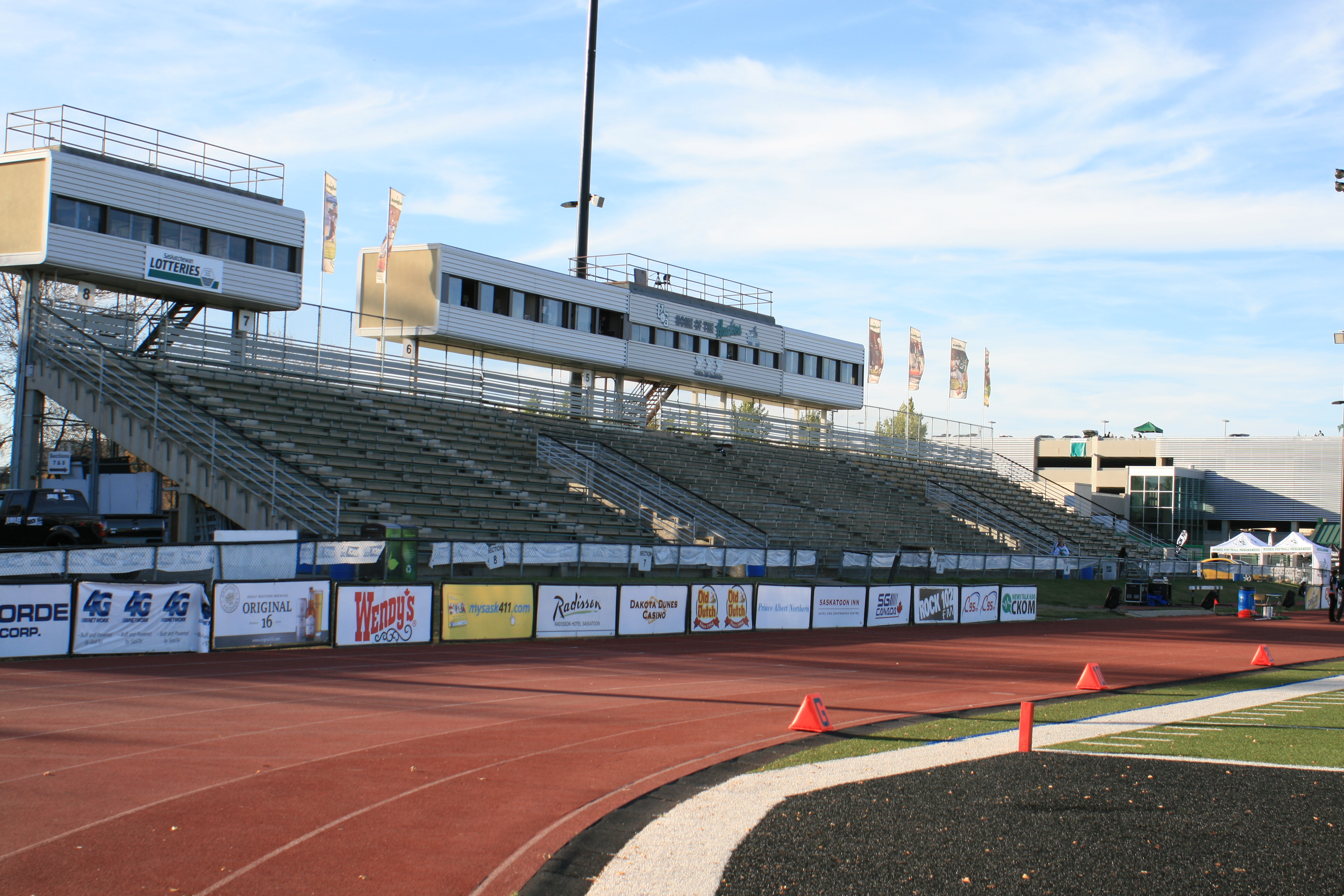 Griffiths Stadium west side stands and press boxes.